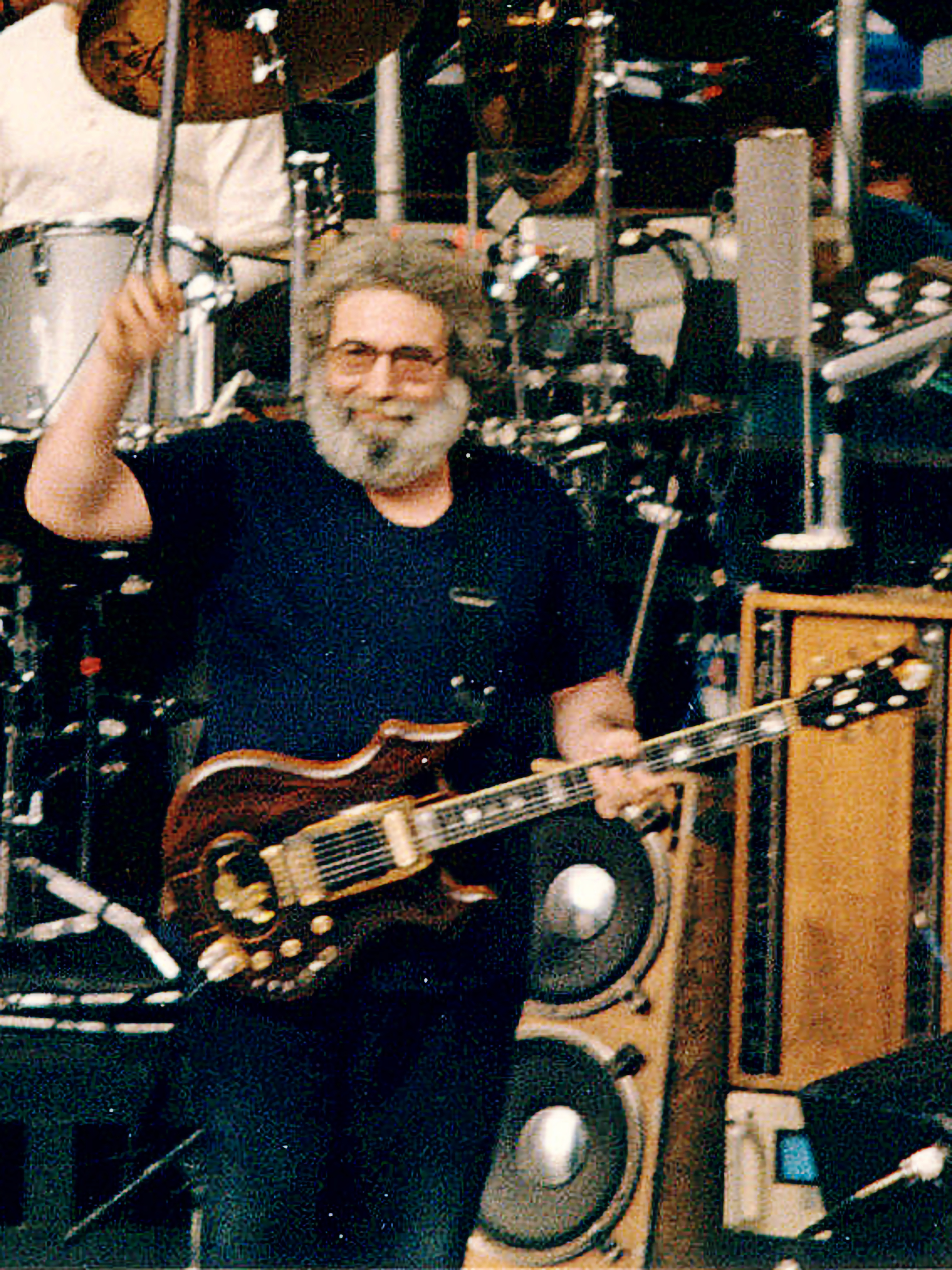 Jerry Garcia (front) (and Mickey Hart (playing drums, not in clipped photograph)) of the Grateful Dead at Red Rocks Amphitheatre in Morrison, Colorado. Image from a deadhead to other deadheads give peace some chance. See more Grateful Dead at